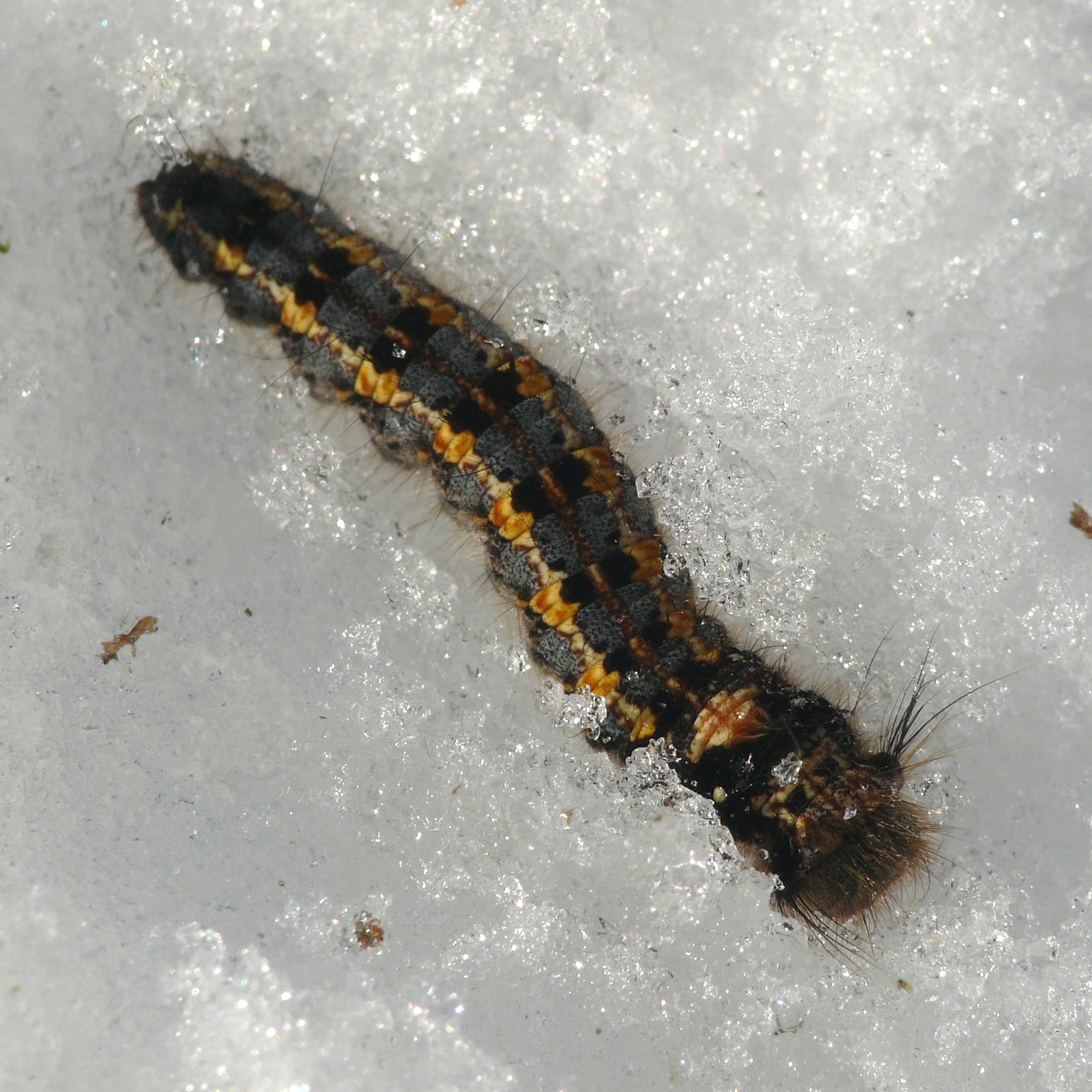 Hibernating caterpillar of Drinker (Euthrix potatoria), Brucker Moos, Landkreis Ebersberg, Bavaria, Germany